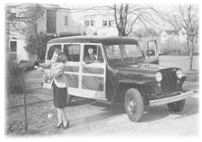 Authored by Plasticboob.